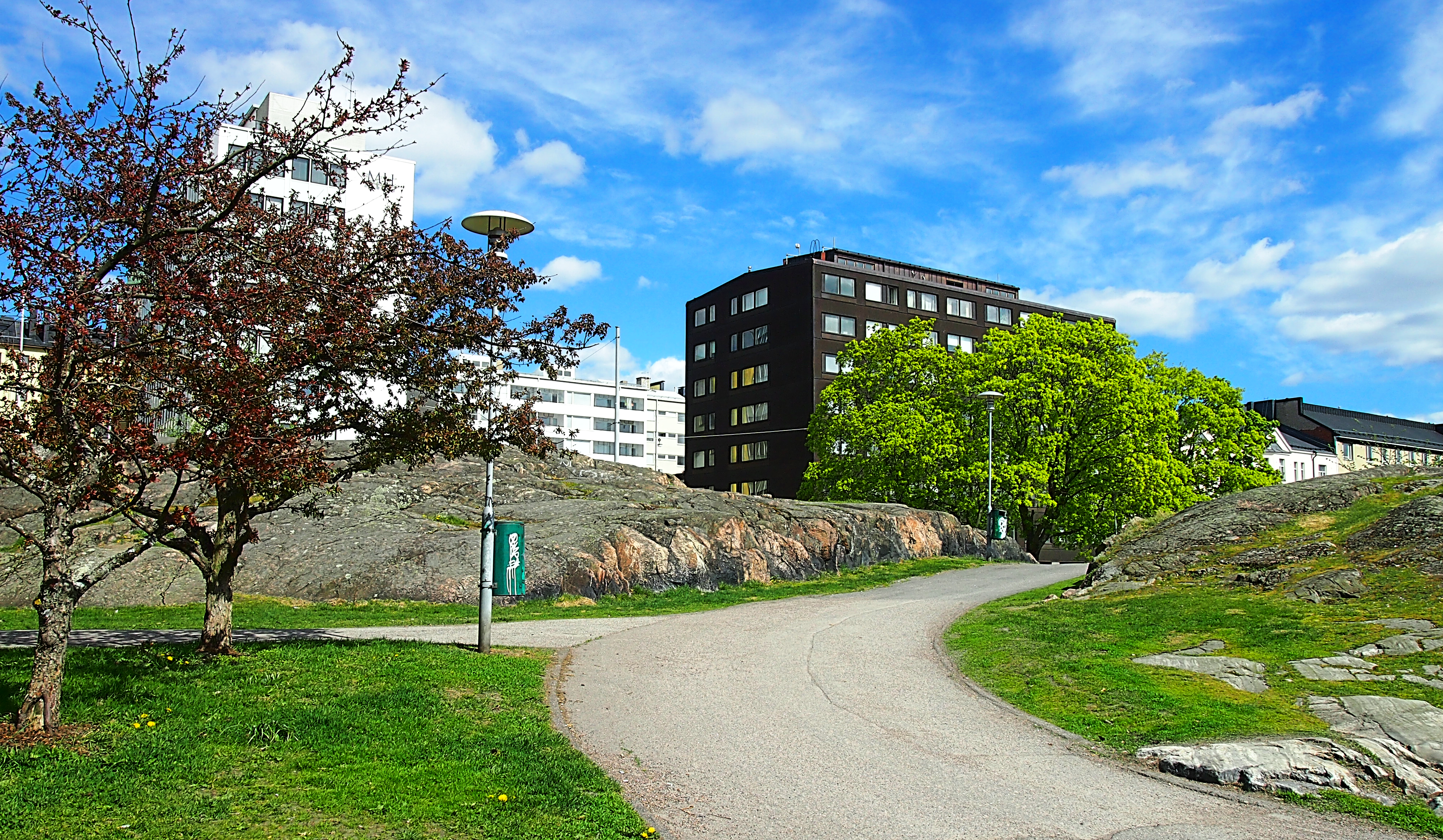 The park Ilolanpuisto, Kallio, Helsinki, Finland